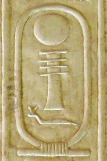 Cartouche 22, Abydos King List. Temple of Seti I, Abydos, Egypt